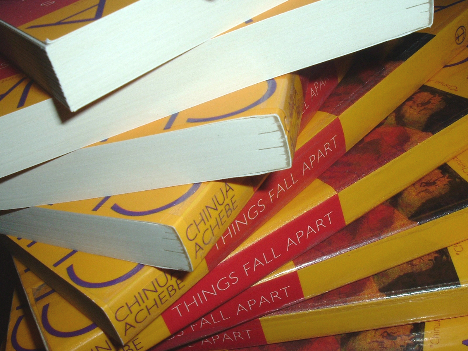 A spiral stack of copies of the 1994 Anchor Books edition of Chinua Achebe's novel Things Fall Apart